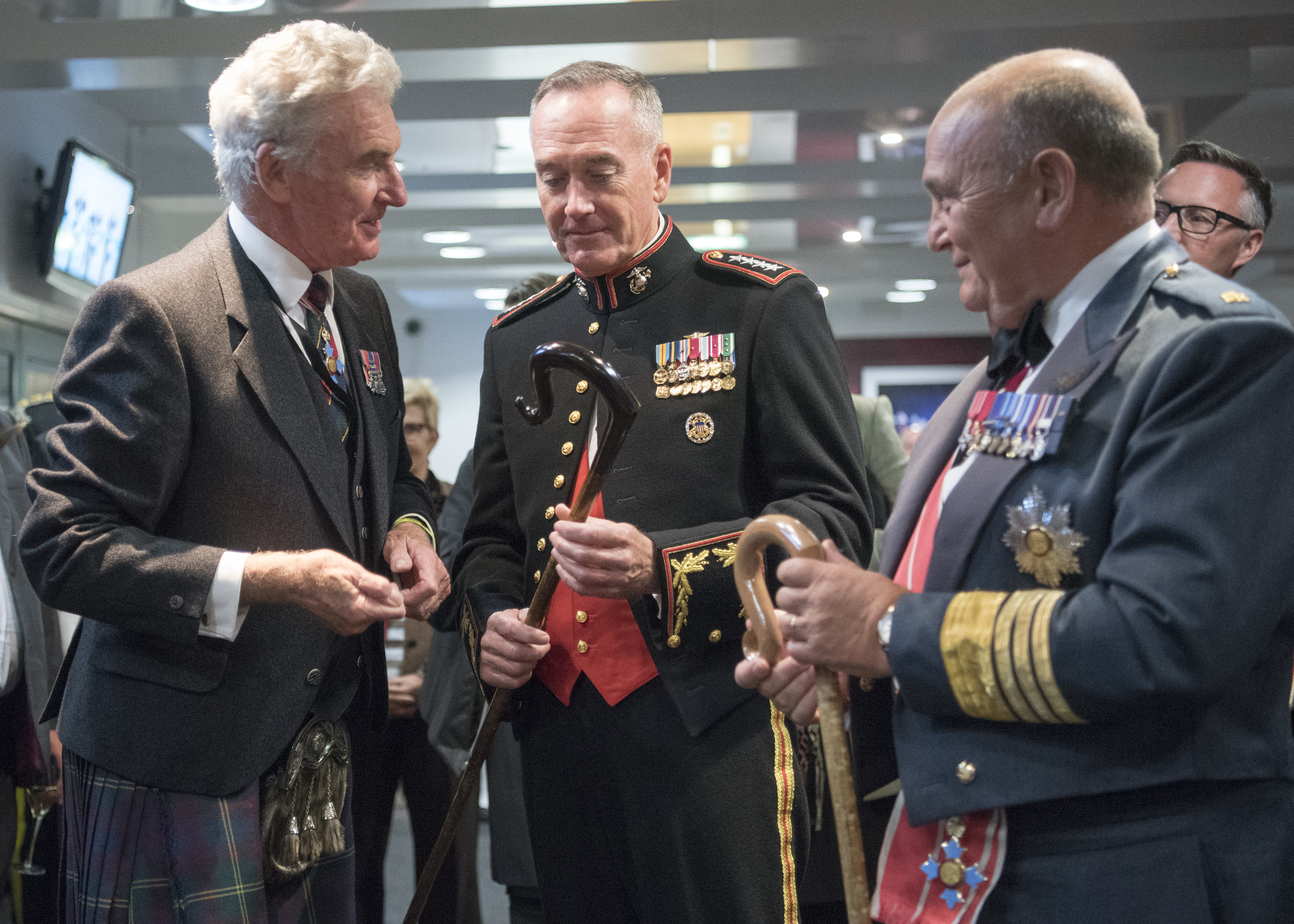 Andrew Durie, clan chief of the Clan Durie, Marine Corps Gen. Joseph F. Dunford Jr., and Air Chief Marshal Sir Stuart Peach